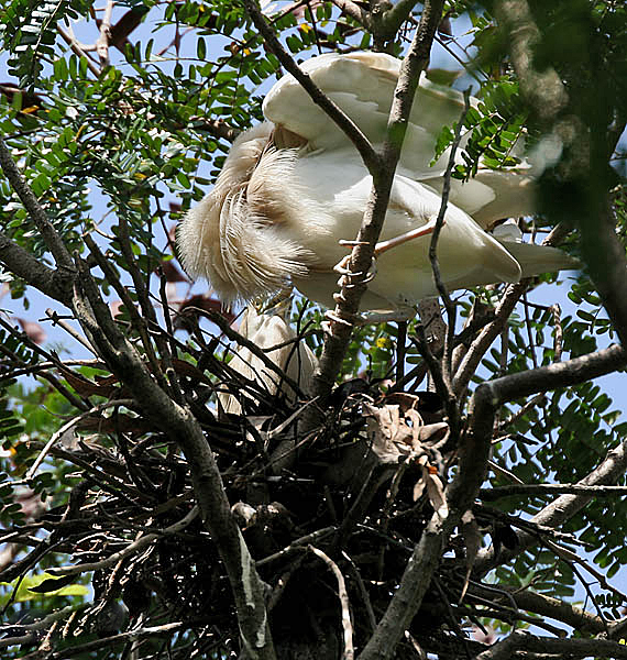 Indian Pond Heron Ardeola grayii in Kolkata, West Bengal, India.